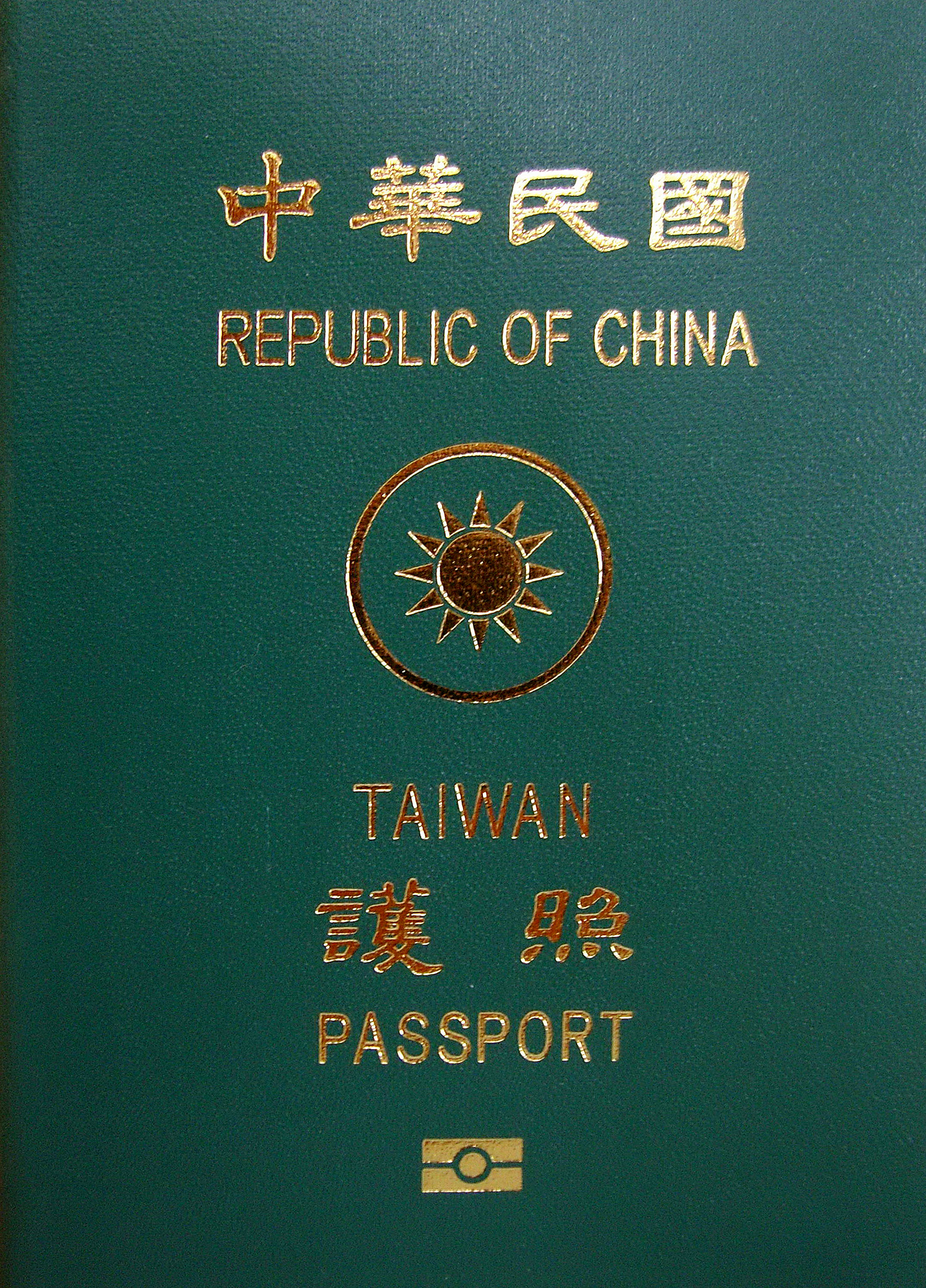 Cover of the Republic Of China (Taiwan) biometric passport.